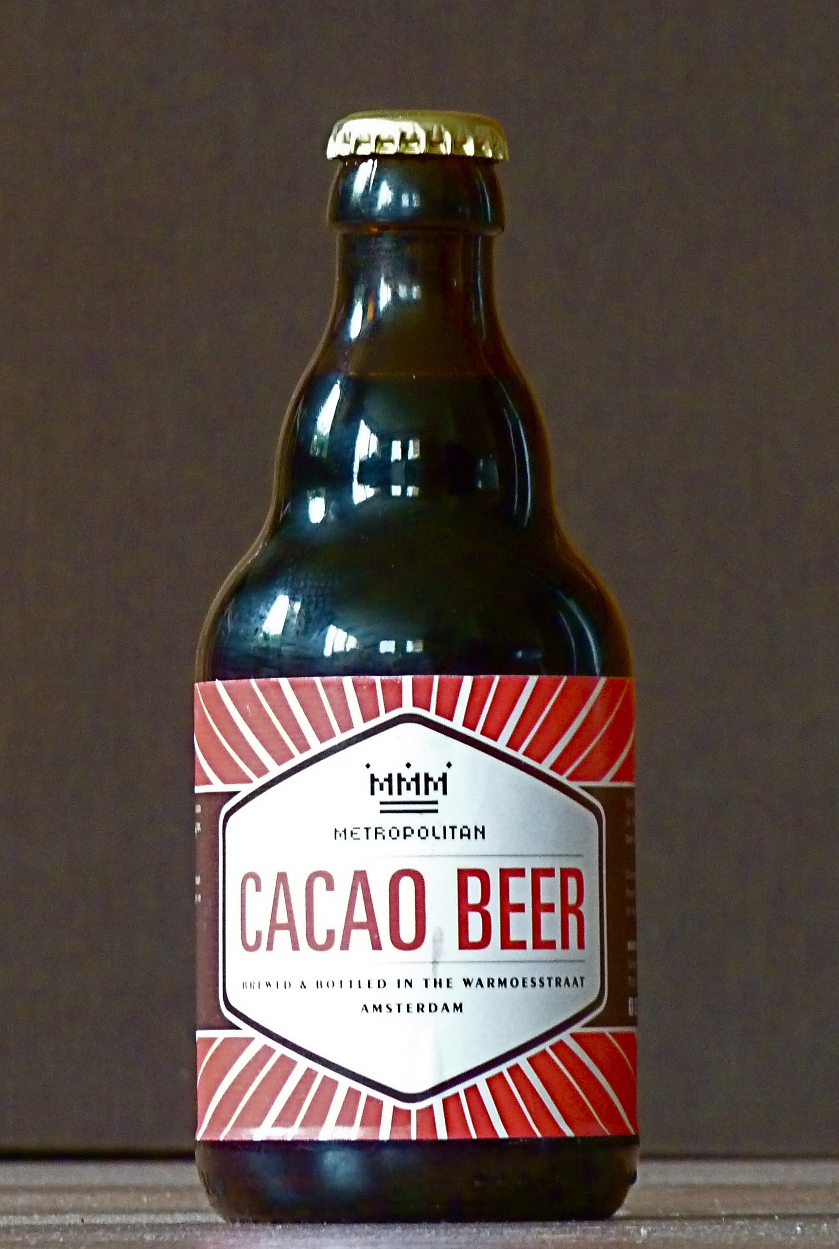 Cacao Beer from the Prael Brewery Amsterdam commissioned by Metropolitan Chocolate C.V.